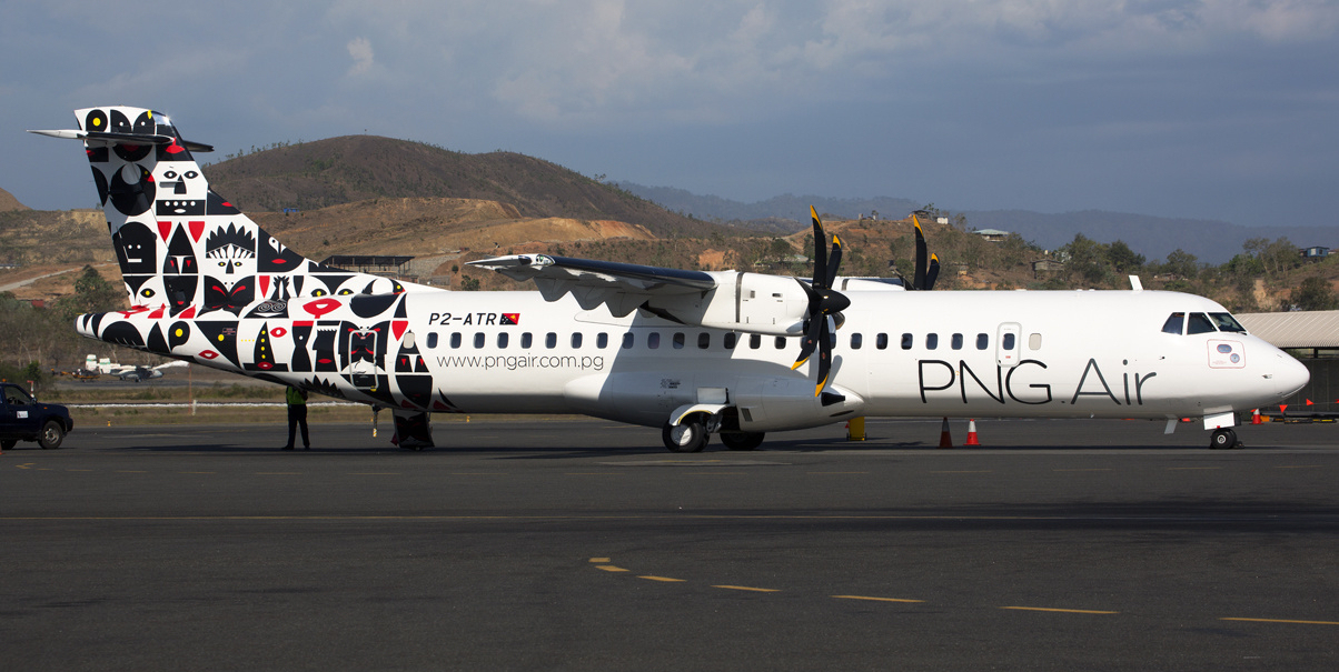 PNG Air ATR 72-600 (P2-ATR) at Jackson Int'l Airport